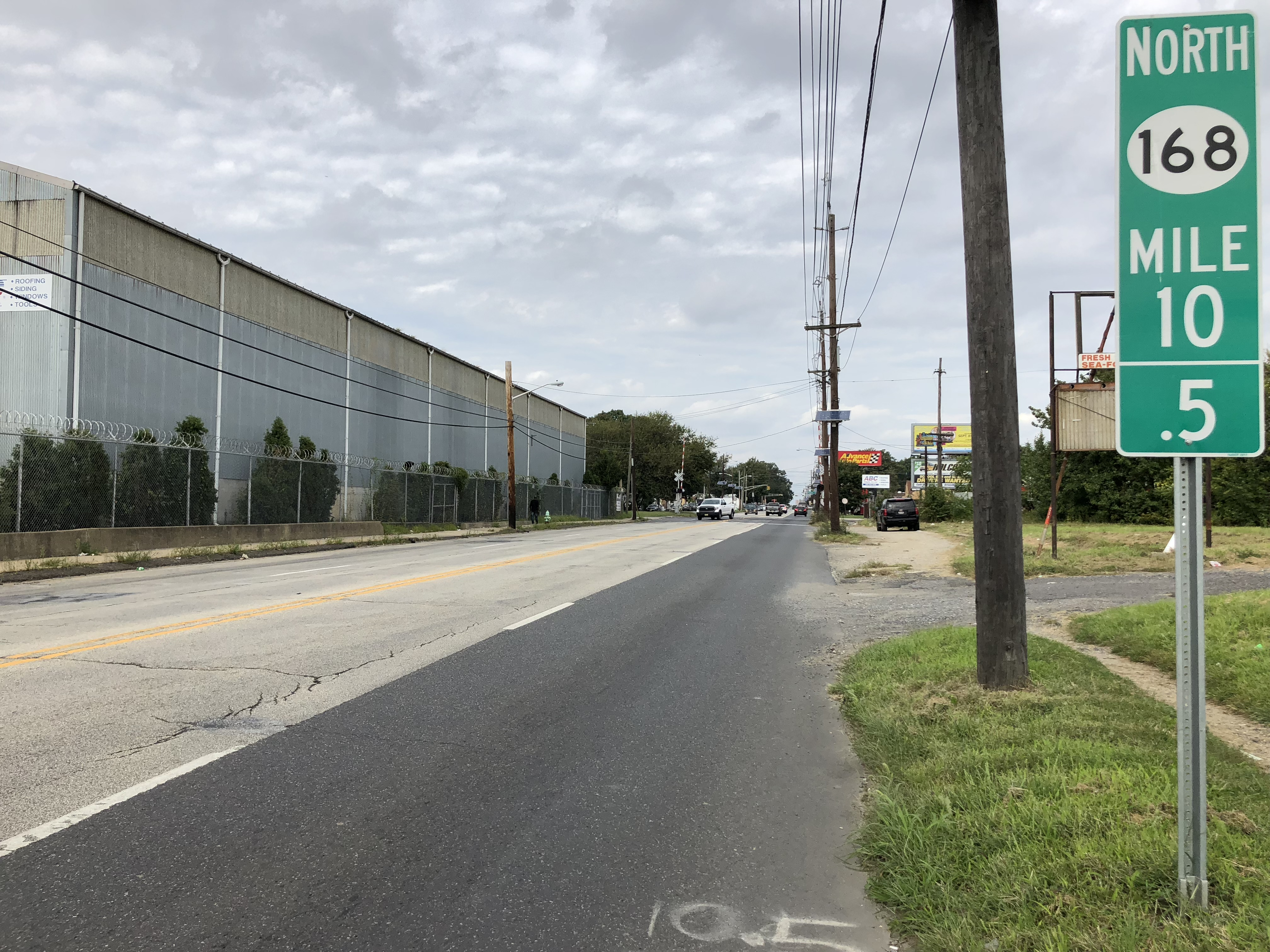 View north along New Jersey State Route 168 (Mount Ephraim Avenue) between Fairview Street and Woodlynne Avenue along the border of Camden and Woodlynne in Camden County, New Jersey